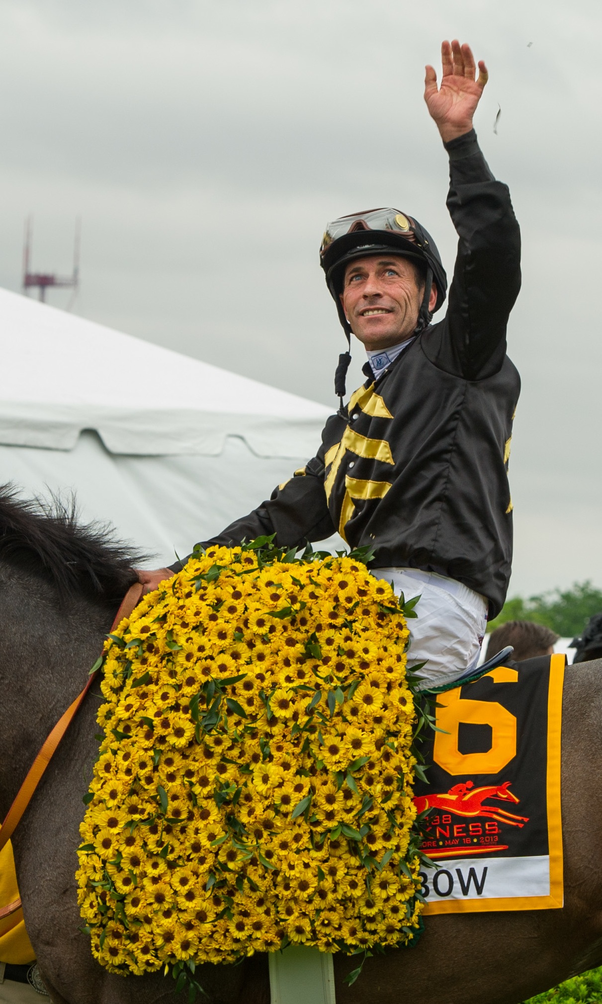 Winners Circle, The 138th Annual Preakness. by Jay Baker at Baltimore, MD.